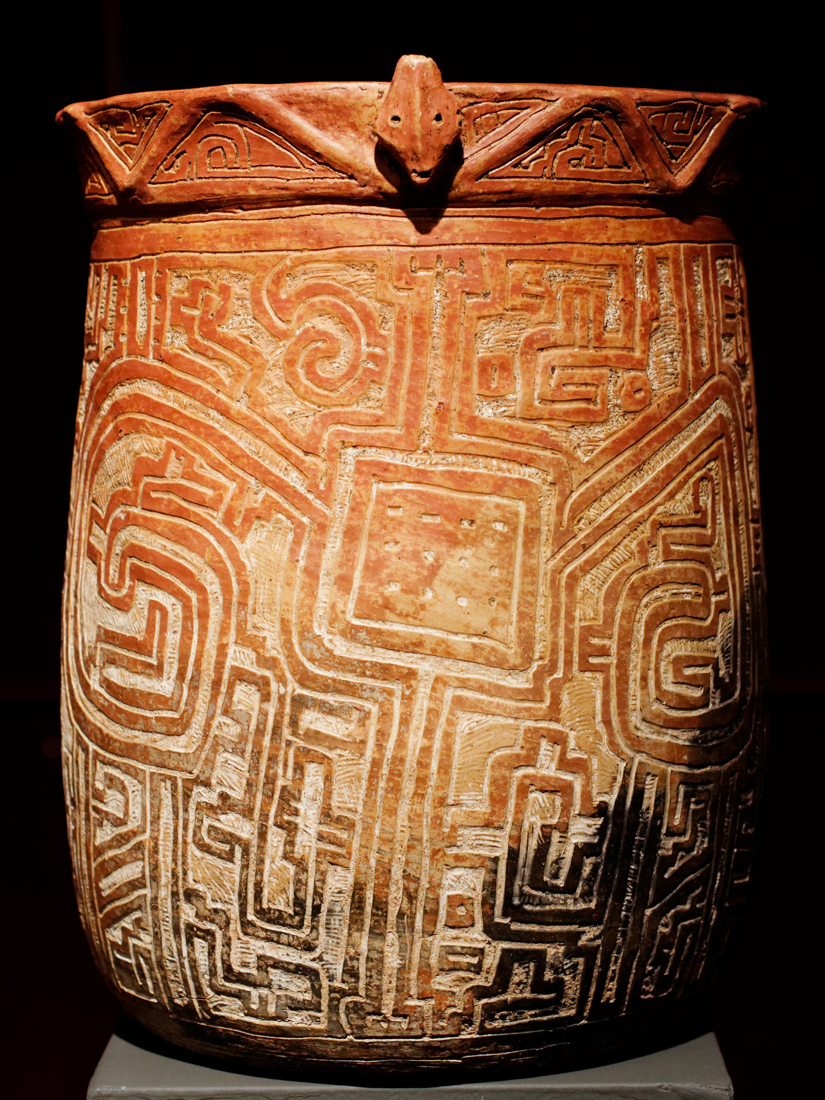 Cylindrical vessel. Marajo island, Brazil, Joanes style, Marajoara phase.